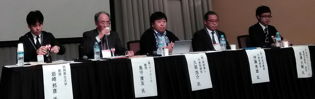 Kunihiko Iwasaki, Professor of the School of Management and Information, University of Shizuoka, attended a panel discussion at the Hotel Hokke Club Sendai in Sendai City, Miyagi Prefecture on November 24, 2016.